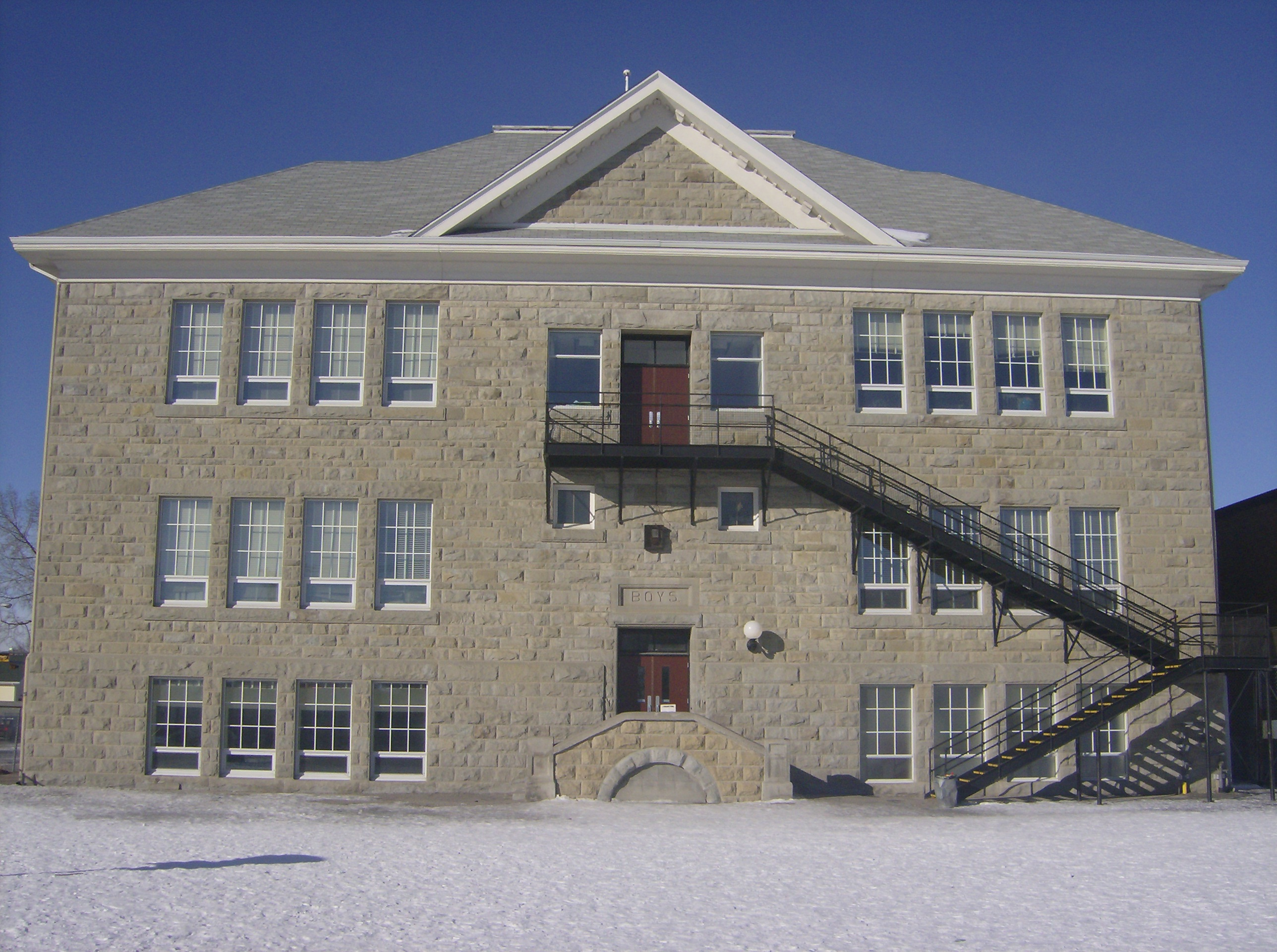 King George School (Calgary, Alberta) in Calgary, Alberta, Canada. This shows the East side of the building, which has the original sandstone exterior. This shows what was once the "BOYS" entrance.